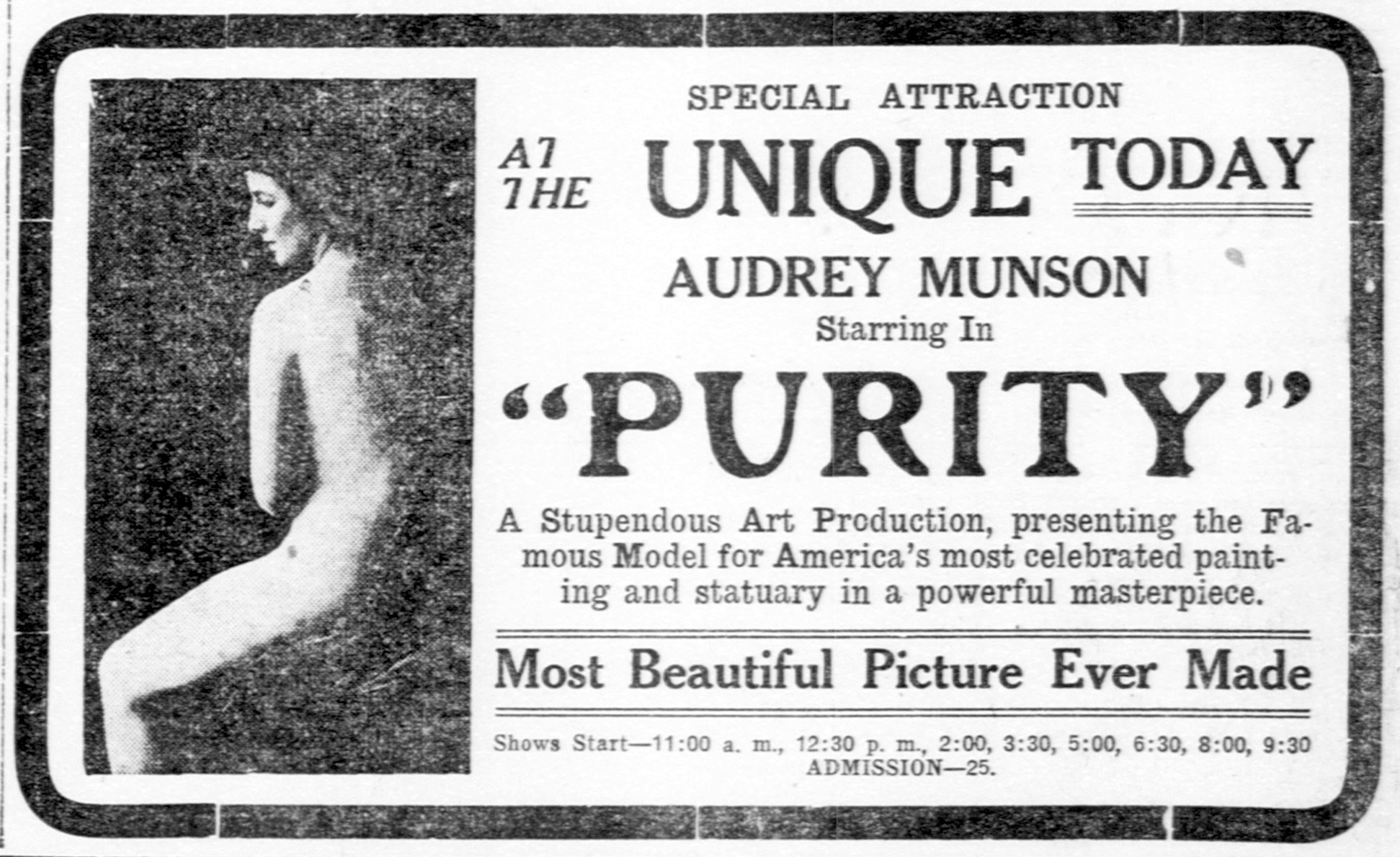 Purity (1916) is an American silent film written by Clifford Howard and directed by Rae Berger and starring Audrey Munson. This is a newspaper advertisement from October 5, 1916.